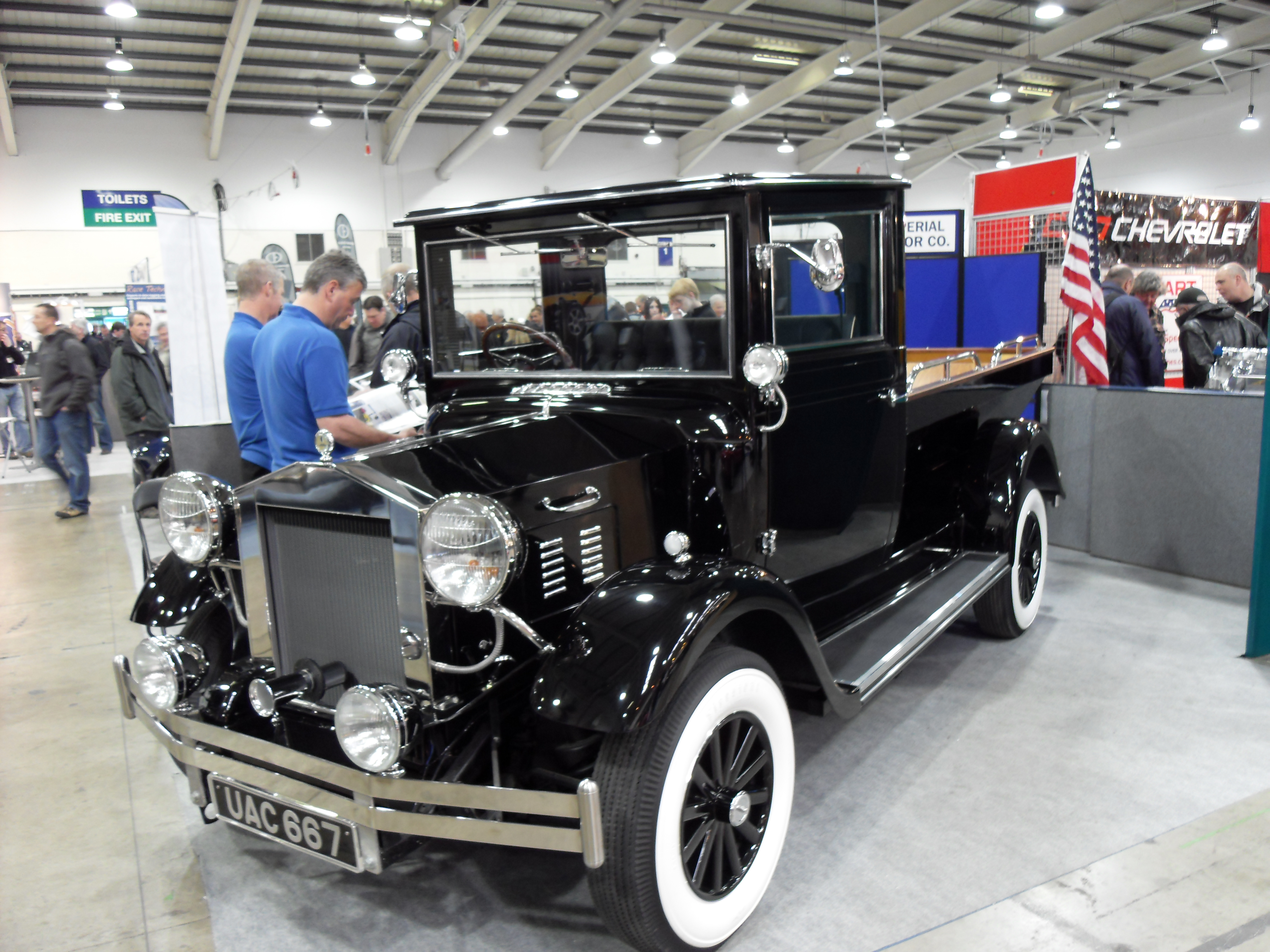 National Kit Car Show Stoneleigh 2009